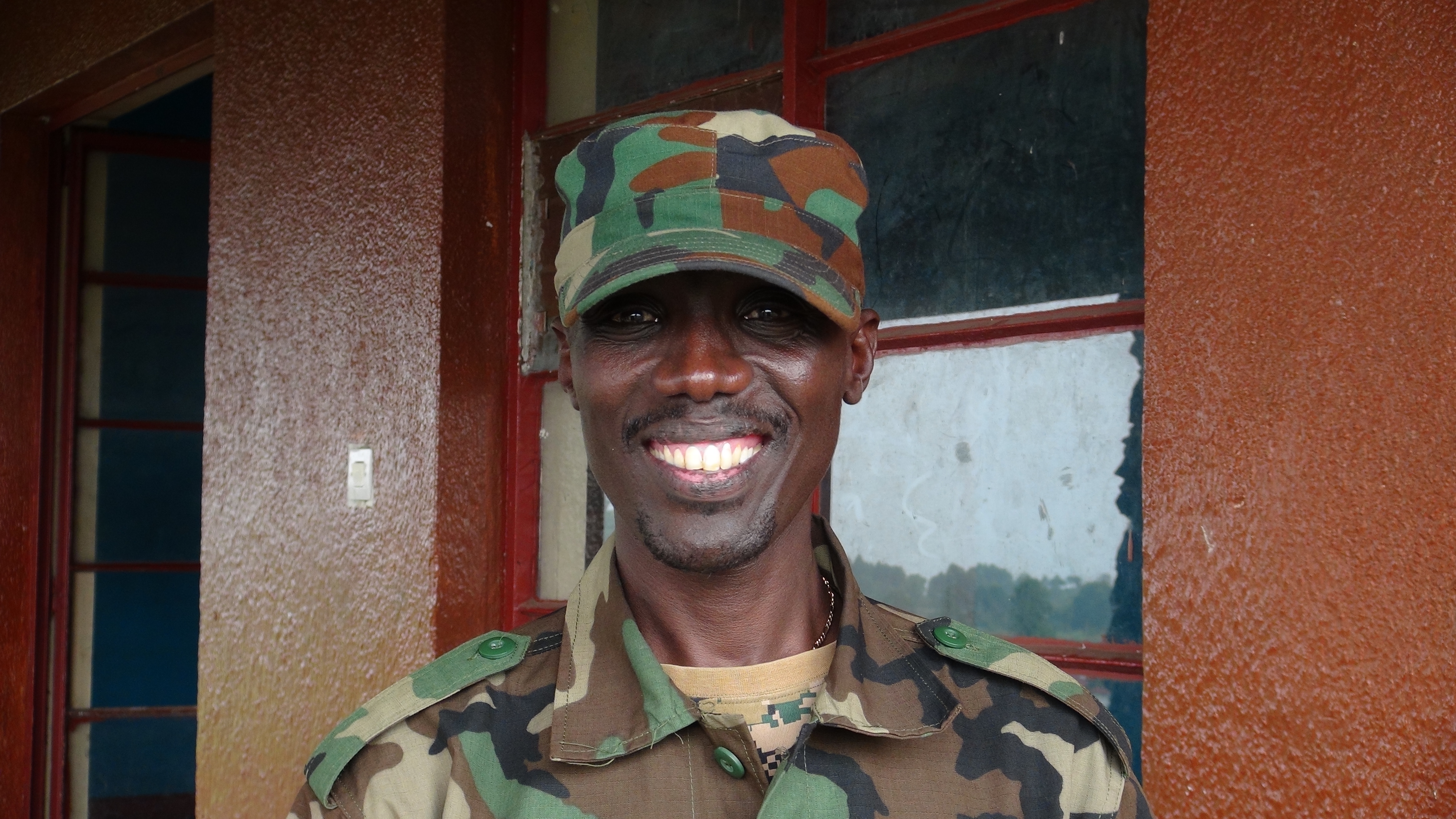 General Sultani Makenga, military leader of the March 23 movement, in Rumangabo, on 3 February 2013, interviewed by VOA's Nicolas Pinault